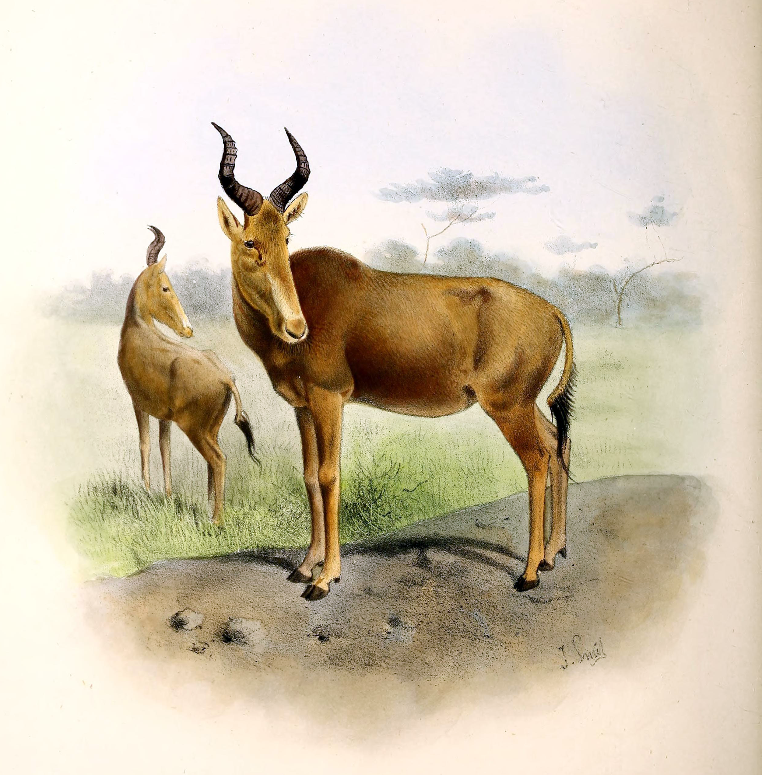 Illustration of Bubal hartebeest